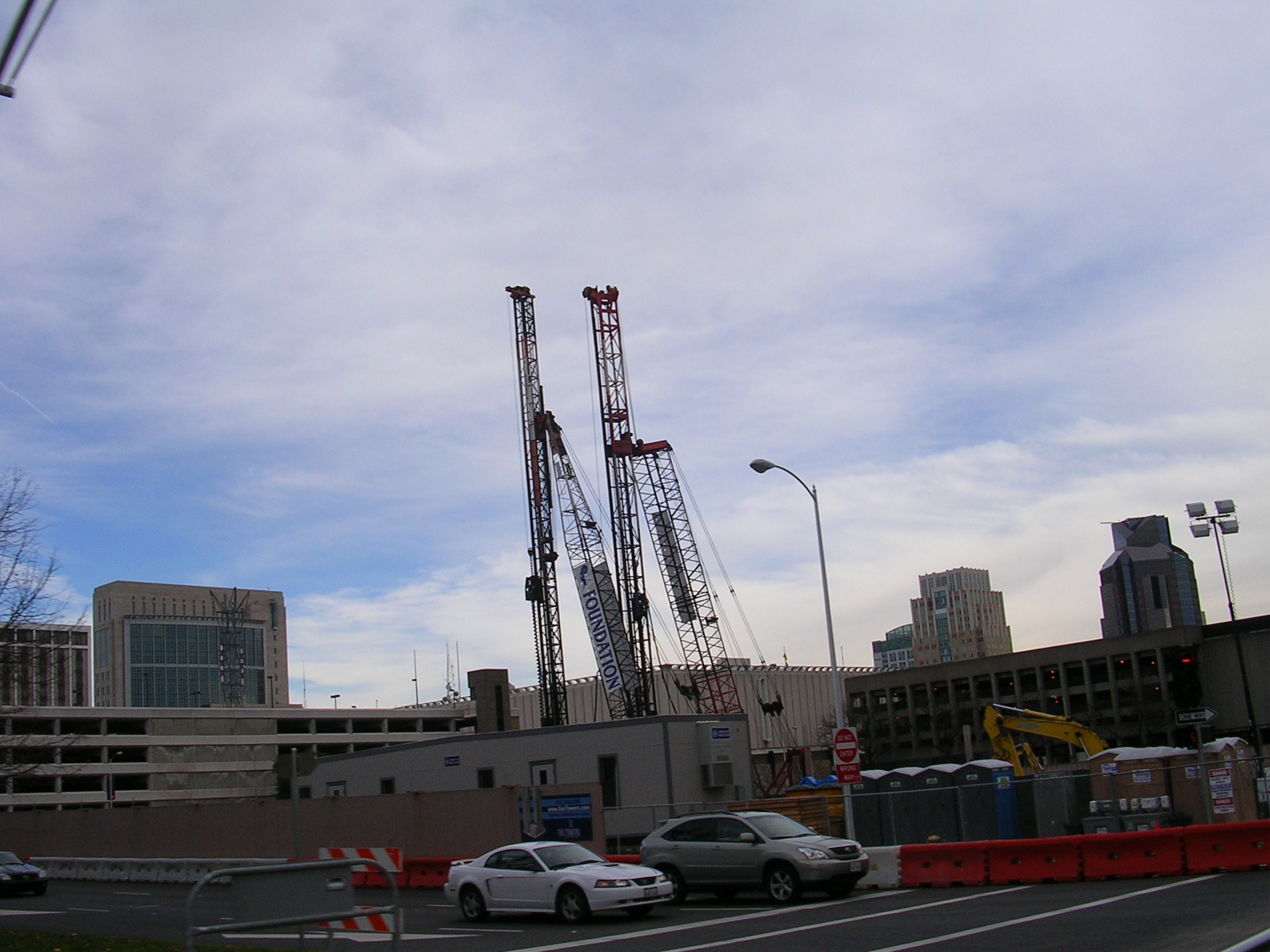 Two pile-drivers at the Towers at Capitol Mall site during construction in December 2006. The project has since been canceled and a big hole is left in its place. The Westfield Mall and the Sacramento skyline is seen in the background.